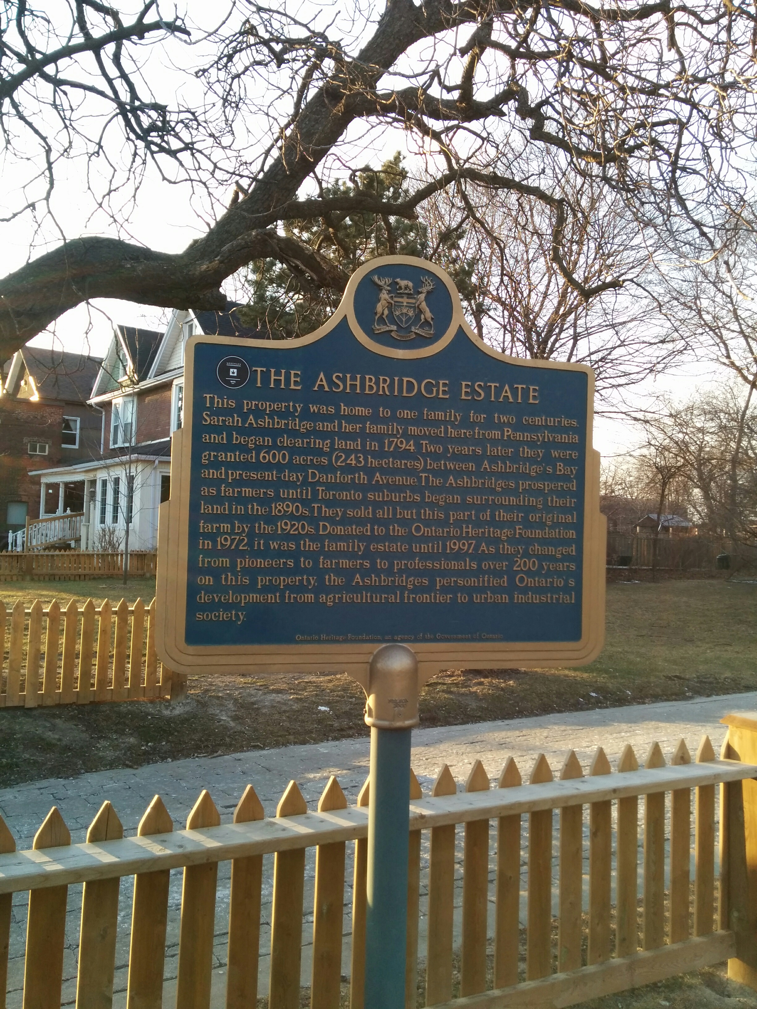 Photo of the Ontario Heritage Trust plaque on the grounds of Ashbridge Estate.